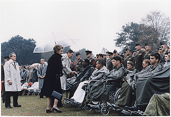 Photograph of President Reagan and Mrs. Reagan attending Memorial Service for Lebanon and Grenada casualty victims, Camp Lejeune, North Carolina: 11/04/1983